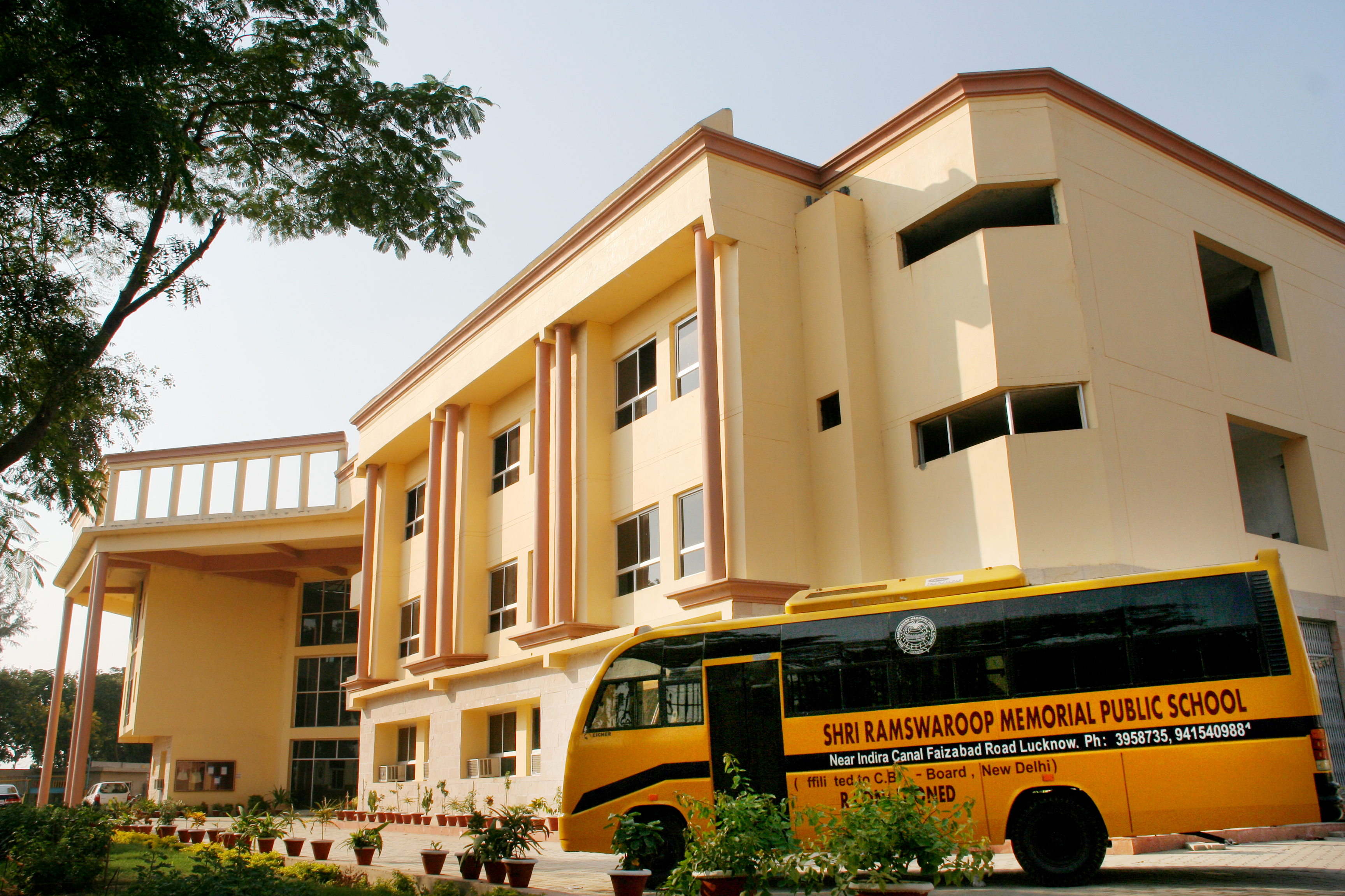 SRMPS - Shri Ramswaroop Memorial Public School is CBSE based residential and modern boarding school in Lucknow, Uttar Pradesh.